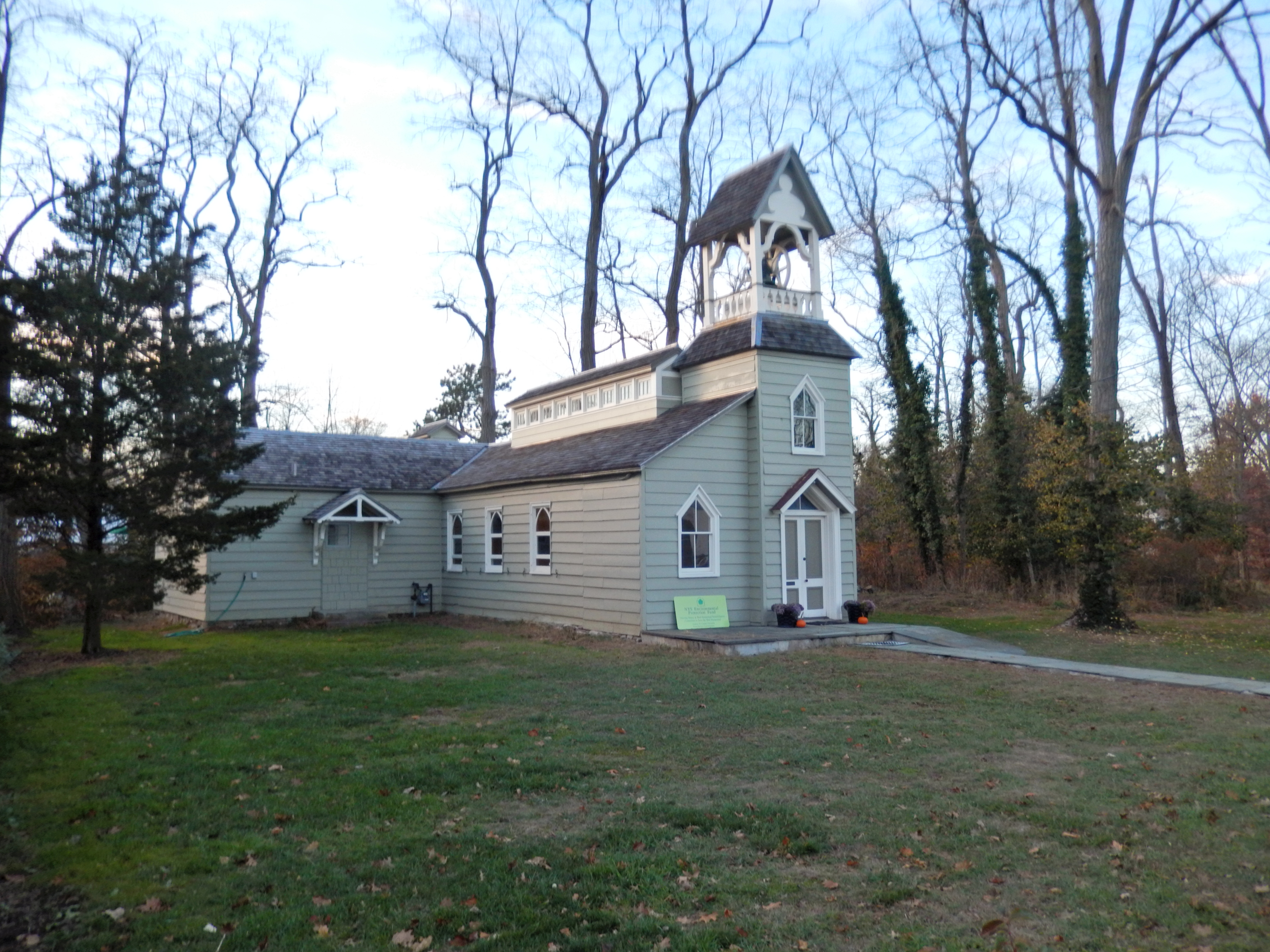 Built as a one room school house in the 1830s in the Gothic Revival style, moved to present location in 1867, used as a Sunday School then a Chapel (Grace Chapel or Milton Chapel), purchased for use by Quakers in 1959 as a meeting house. Bell tower completed in 1877, library in south wing in 1875.